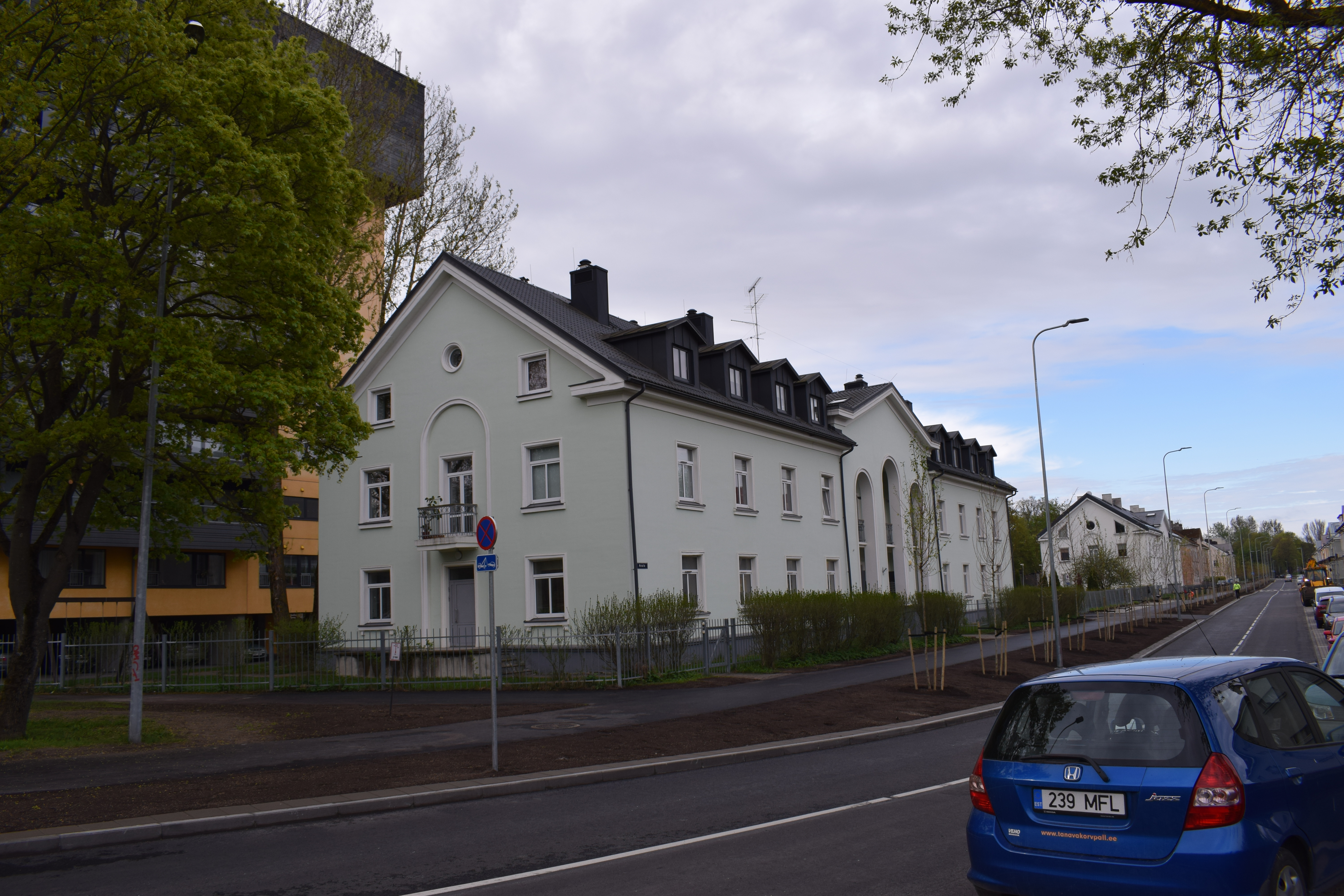 Asula street